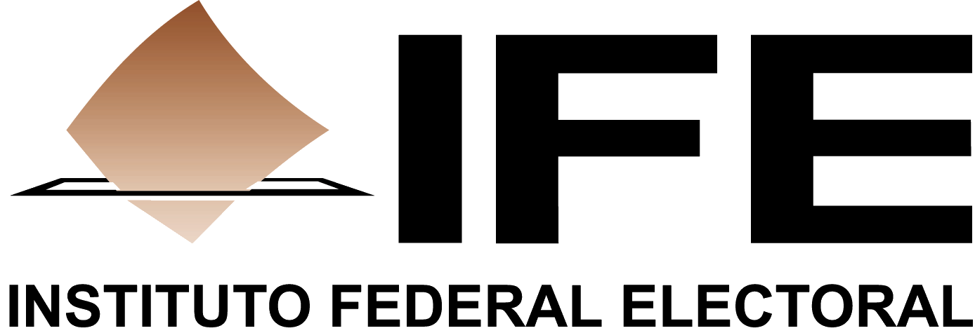 This is a logo for Federal Electoral Institute